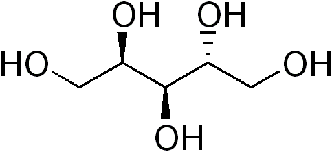 chemical structure of D-arabitol